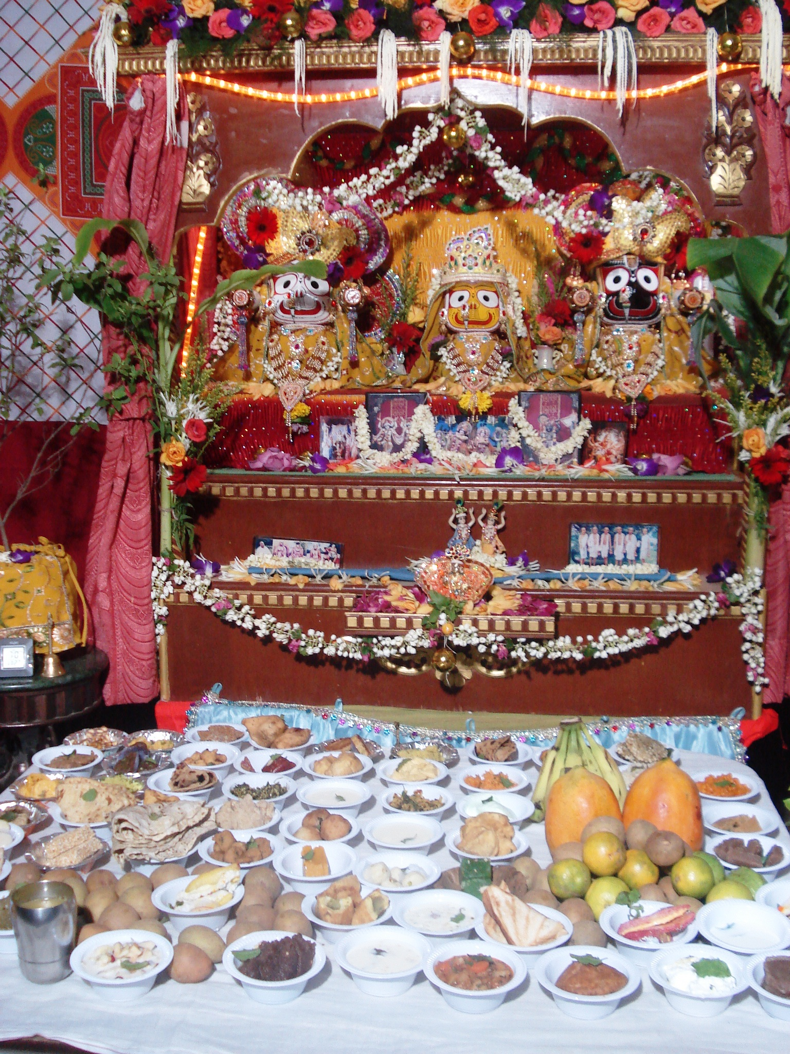 Janmashthami 2009 celebration picture at Iskcon Youth Services Borivali